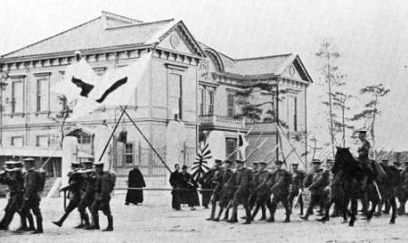 17th Division members marching in front of their HQ.